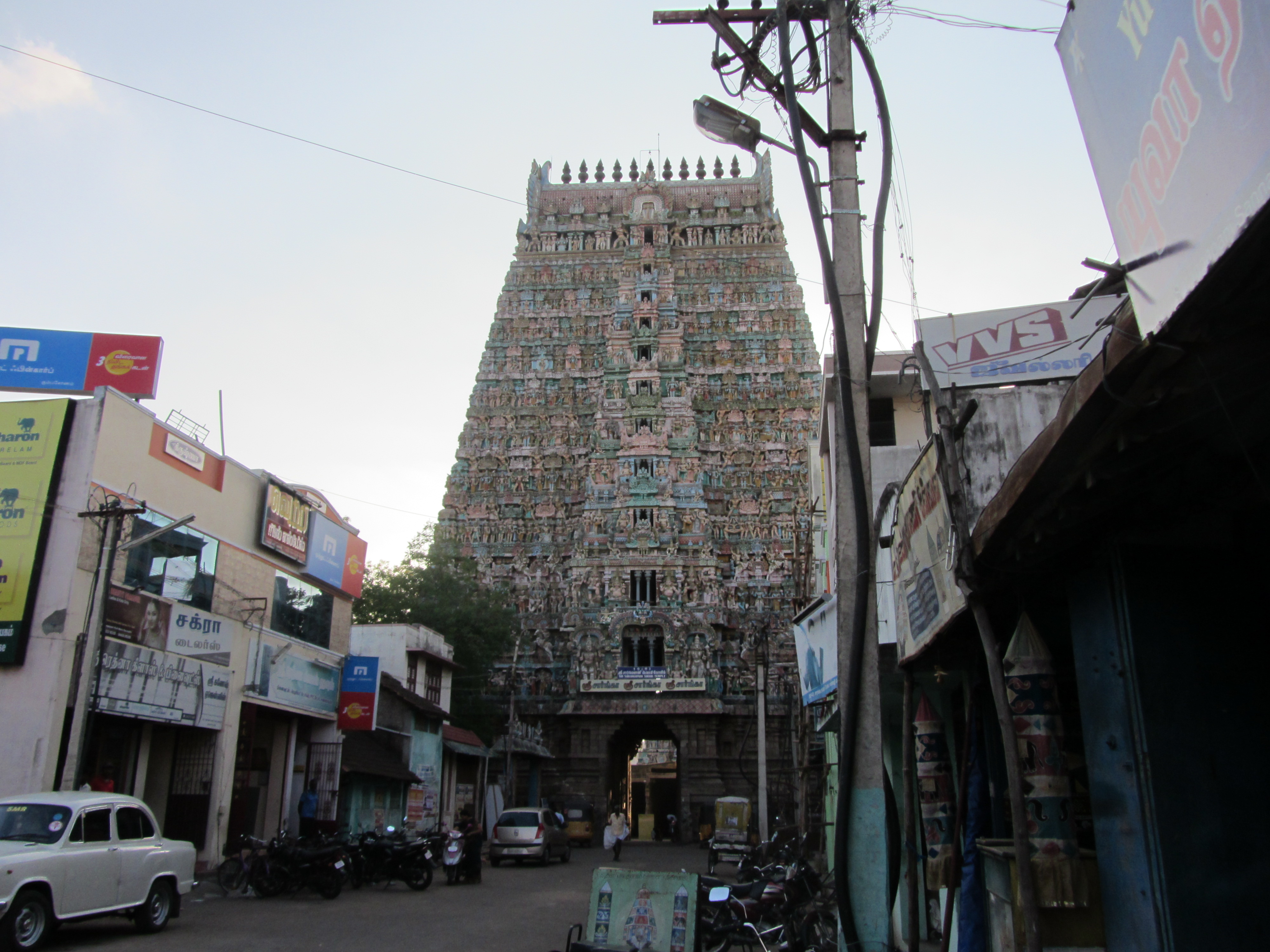 Street view of Sarangapani temple.